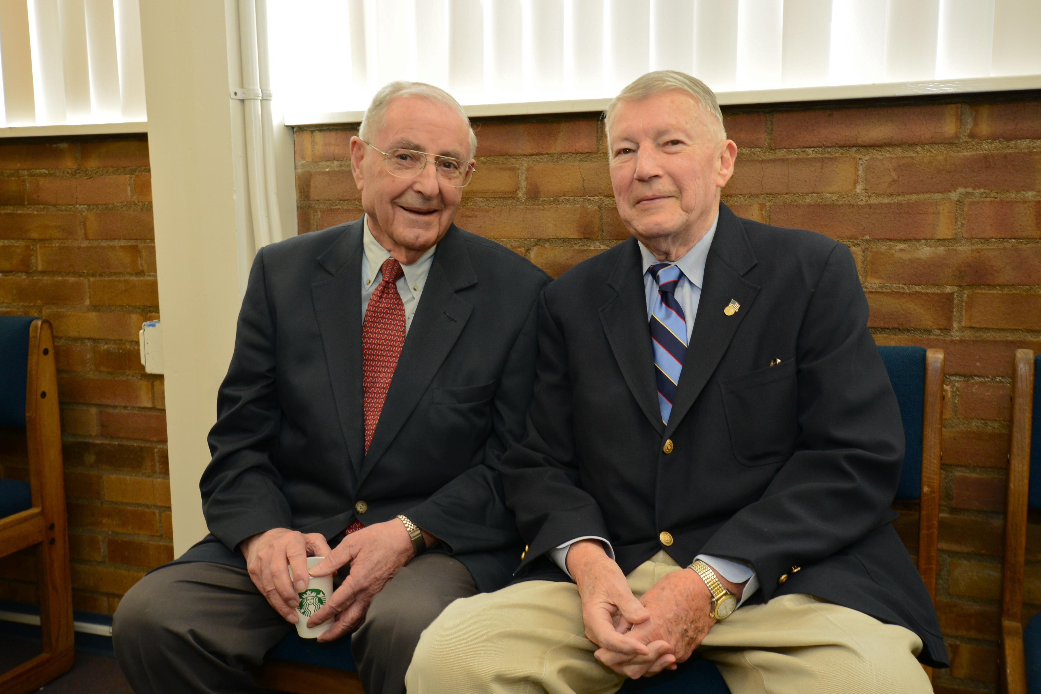 Former Oregon Governor Vic Atiyeh joins Oregon State Defense Force Brig. Gen. James B. Thayer for a quiet moment at the start of the tour of the Oregon Military Museum's construction site at Camp Withycombe in Clackamas, Ore., April 11, 2012. After his military service, Thayer was a businessman in Beaverton, Oregon, owning and operating the J. Thayer Company office- and art supply store for many years. (Photo by Master Sgt. Nick Choy, Oregon Military Department Public Affairs)